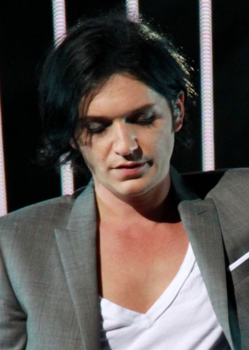 Brian Molko from Placebo performing at the launch of the Belgian Presidency on the Esplanade of the European Parliament in Brussels